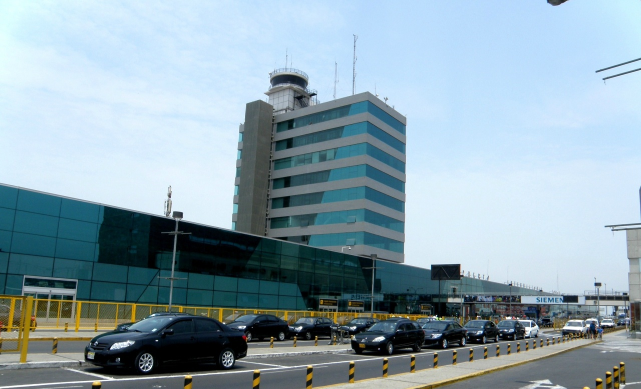 Jorge Chávez International Airport near Lima, Peru